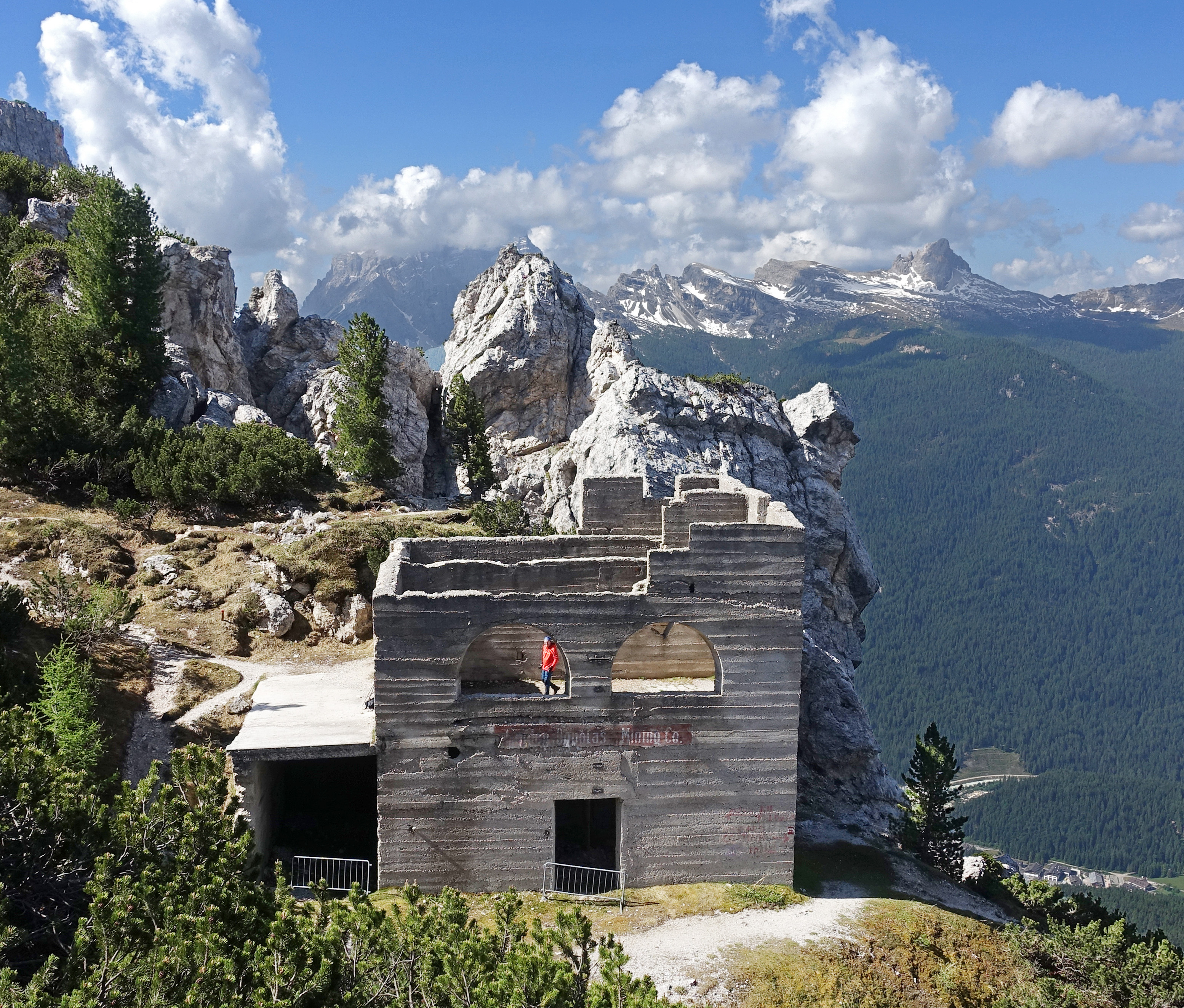 Cortina d'Ampezzo, Italy.